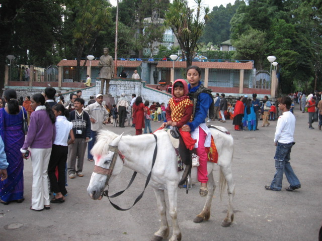 Own photograph